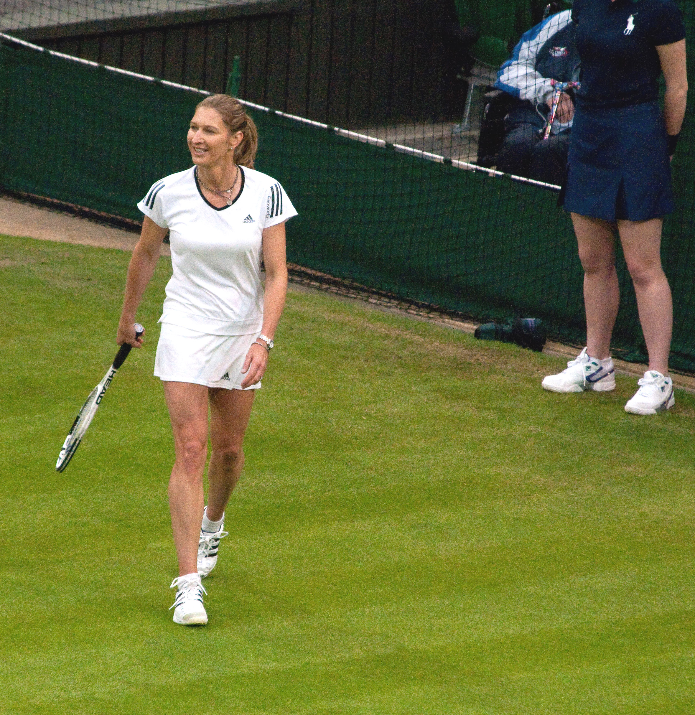 Former World No. 1 German female tennis player Steffi Graf during the special event “A Centre Court Celebration” (event was designed to test a new roof and air management system with live tennis in front of a capacity crowd of 15,000 – Andre Agassi and Steffi Graf played vs. Tim Henman and Kim Clijsters)